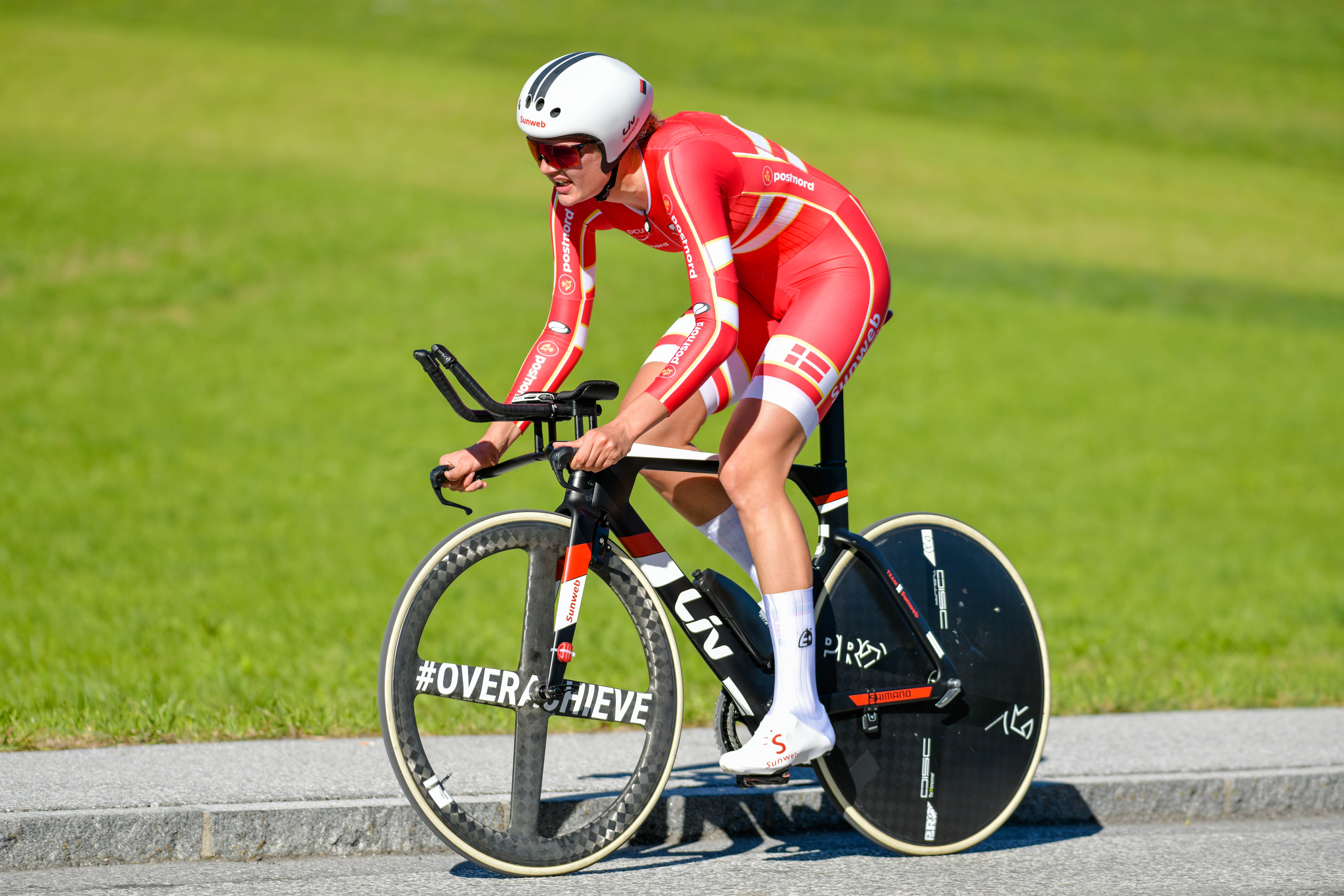 2018 UCI Road World Championships Innsbruck/Tirol Women Elite Individual Time Trial. Picture shows: Pernille Mathiesen of Denmark